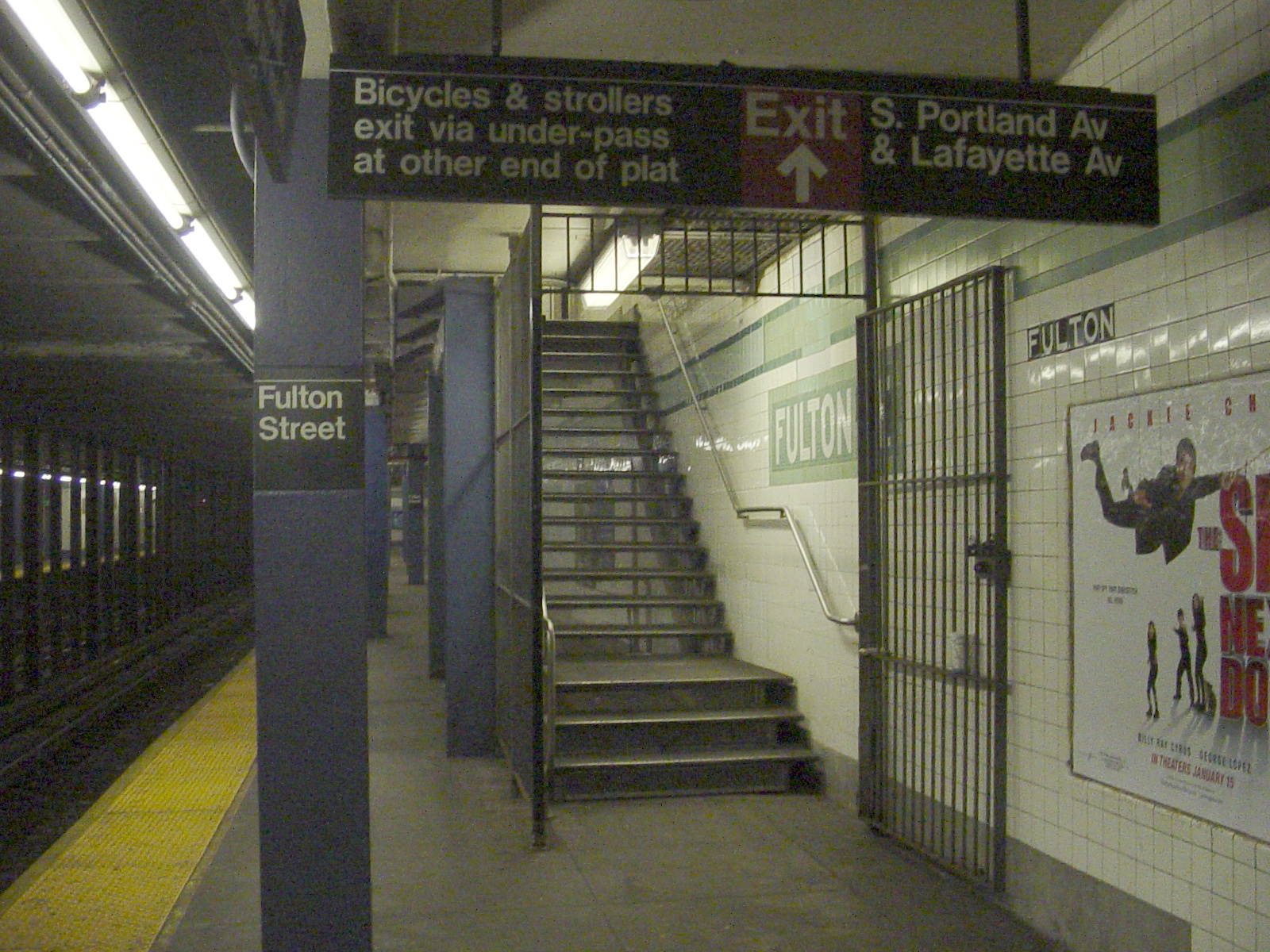 Northbound platform exit staircase at Fulton Street (IND Crosstown Line), leading to South Portland Avenue